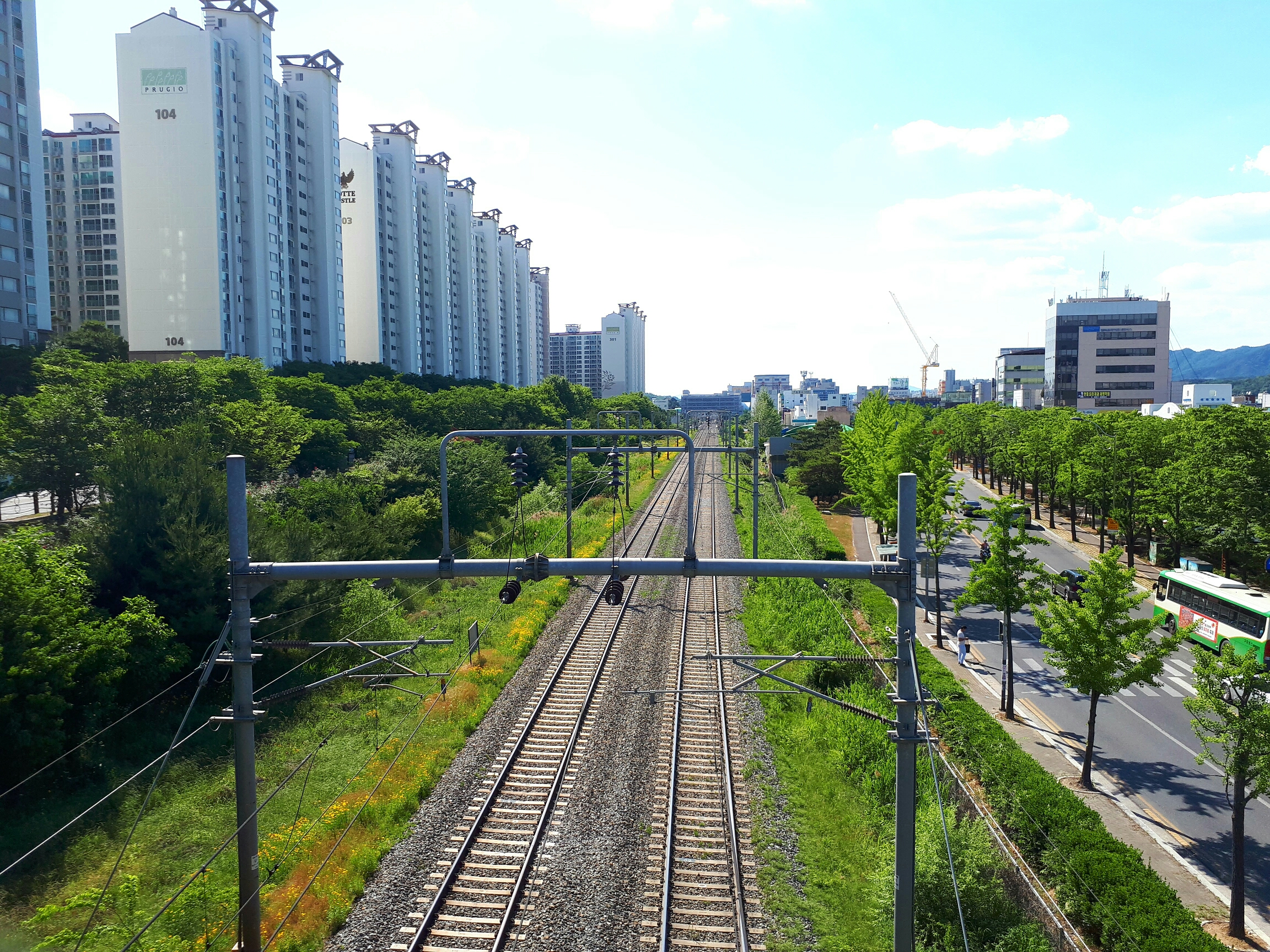 Gyeongbu Railway Line, near Gumi station (and gumijung-ang-lo)